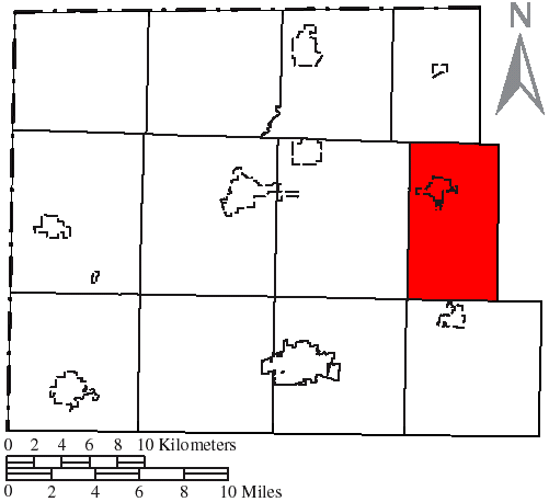 Made by the US Census and modified by myself